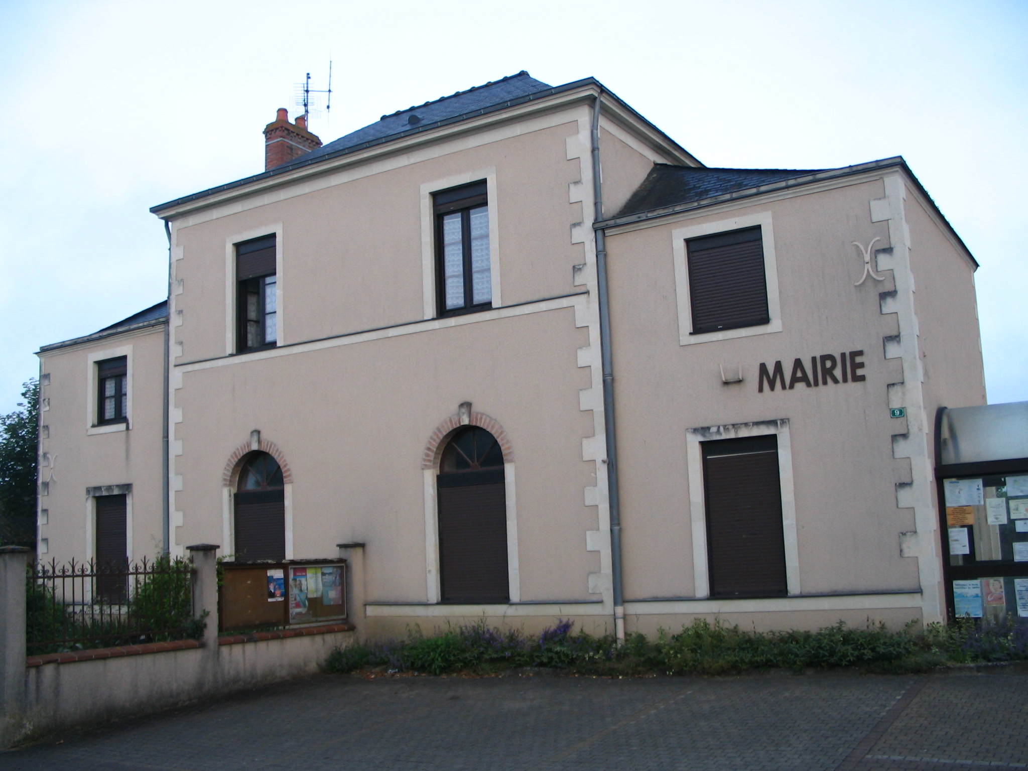 The town hall of Notre-Dame-du-Pé, Sarthe, France.